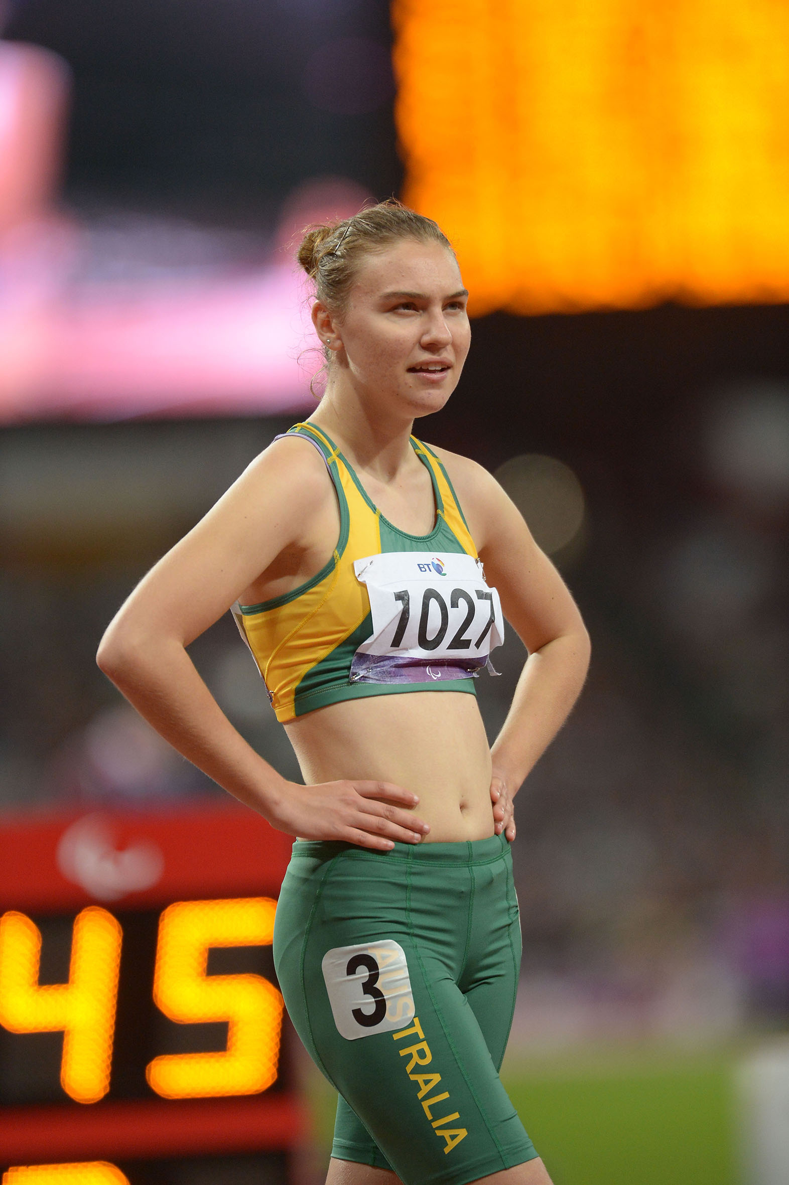 Photograph of Australian Paralympic team member Torita Isaac at the 2012 Summer Paralympic Games in London